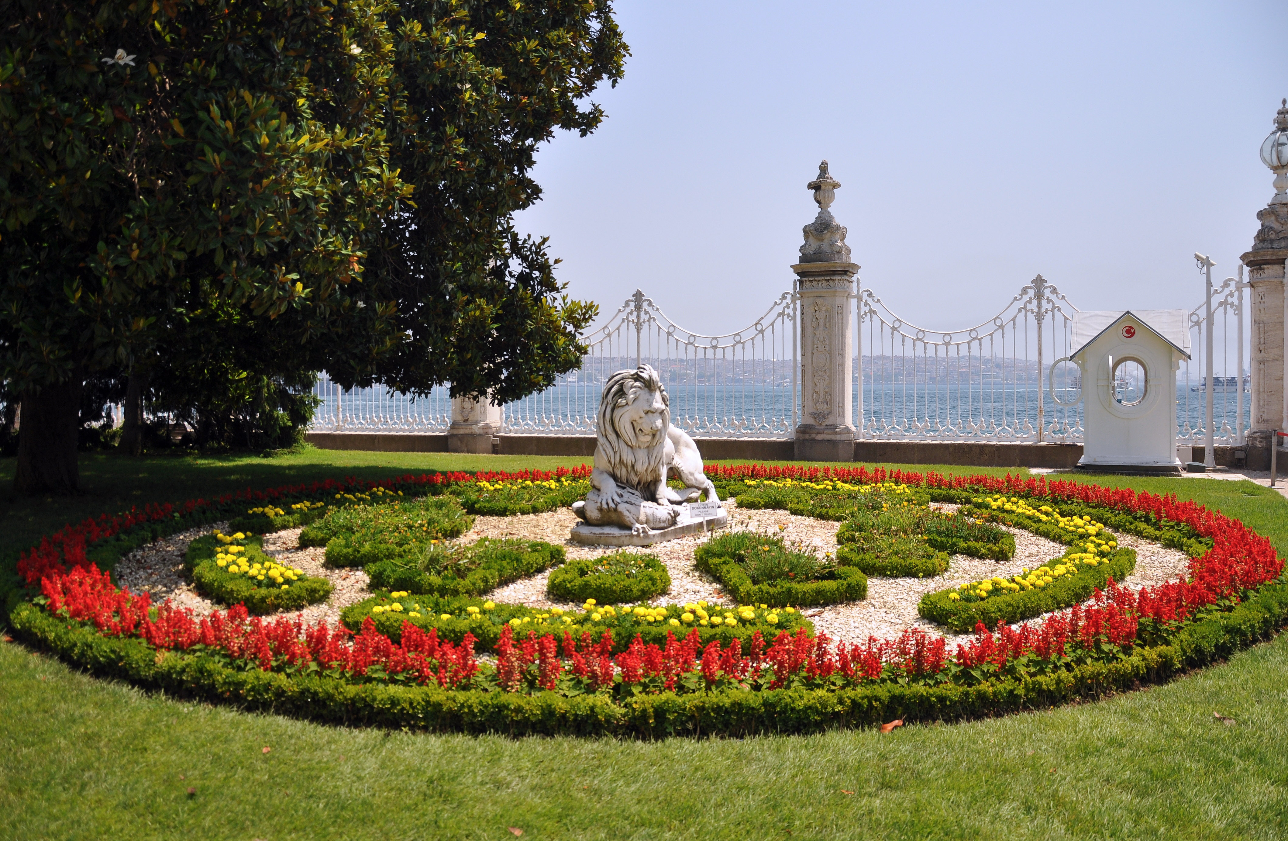 Lion's statue at the garden of Dolmabahçe Palace in Istanbul, Turkey.